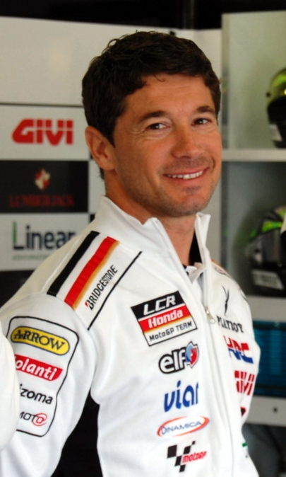 Lucio Cecchinello at the GP of Great-Britain 2011